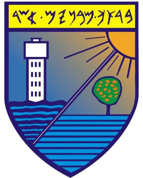 Coat of Arms of the city of Nahariya, Israel, with writings in Paleo-Hebrew alphabet (Deuteronomy 33:24, בָּרוּךְ מִבָּנִים אָשֵׁר 𐤌𐤁𐤍𐤉𐤌 𐤀𐤔𐤓 𐤁𐤓𐤅𐤊 )